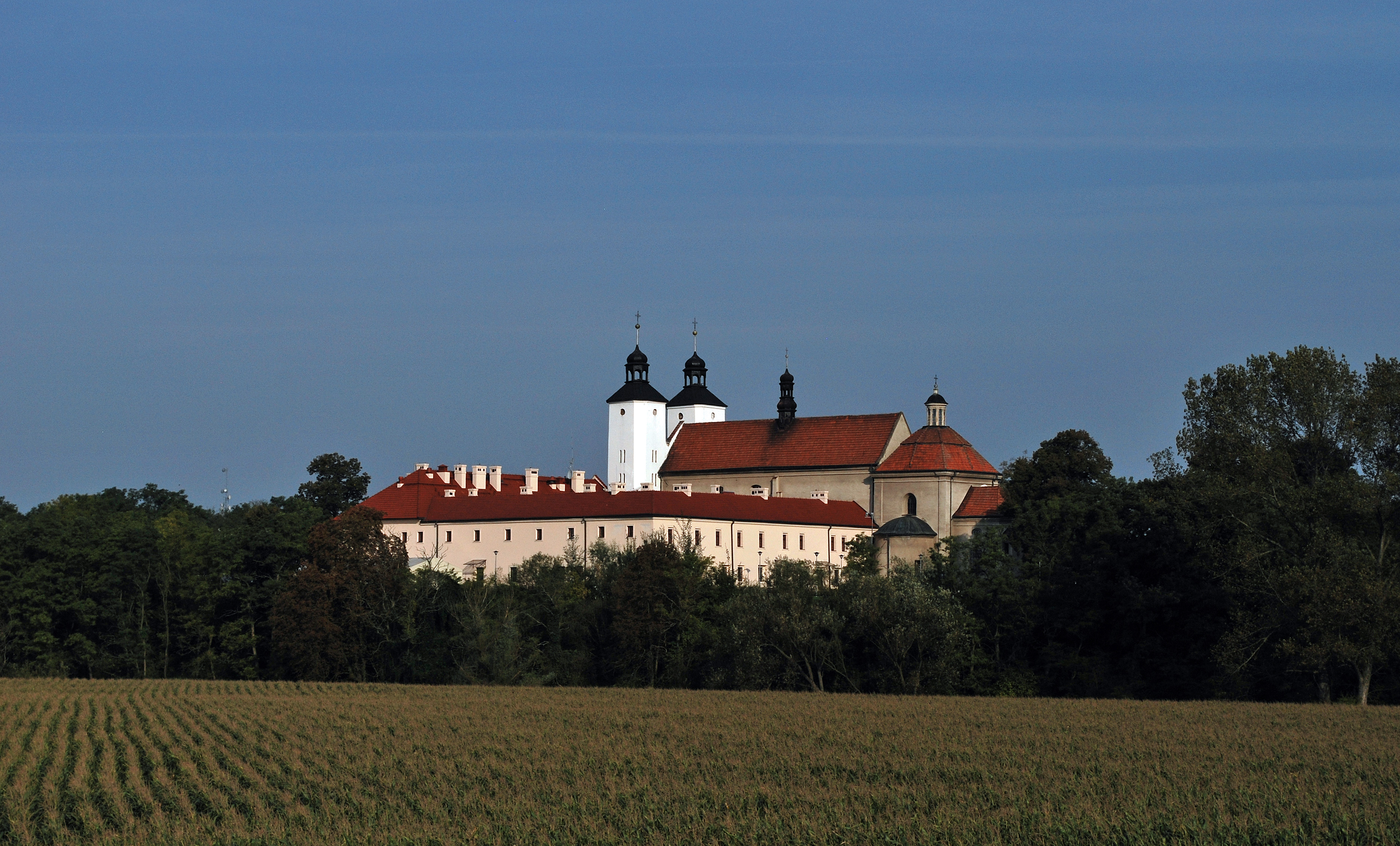 Church of the Assumption of Mary and Saint Apostles Peter and Paul and former Premonstratensians monastery (view from S), Hebdów village, Proszowice county, Lesser Poland Voivodeship, Poland